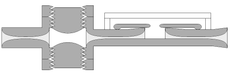 Nitrogen Laser various sources on the Web and in the Journal on Scientific Instruments 2005-08